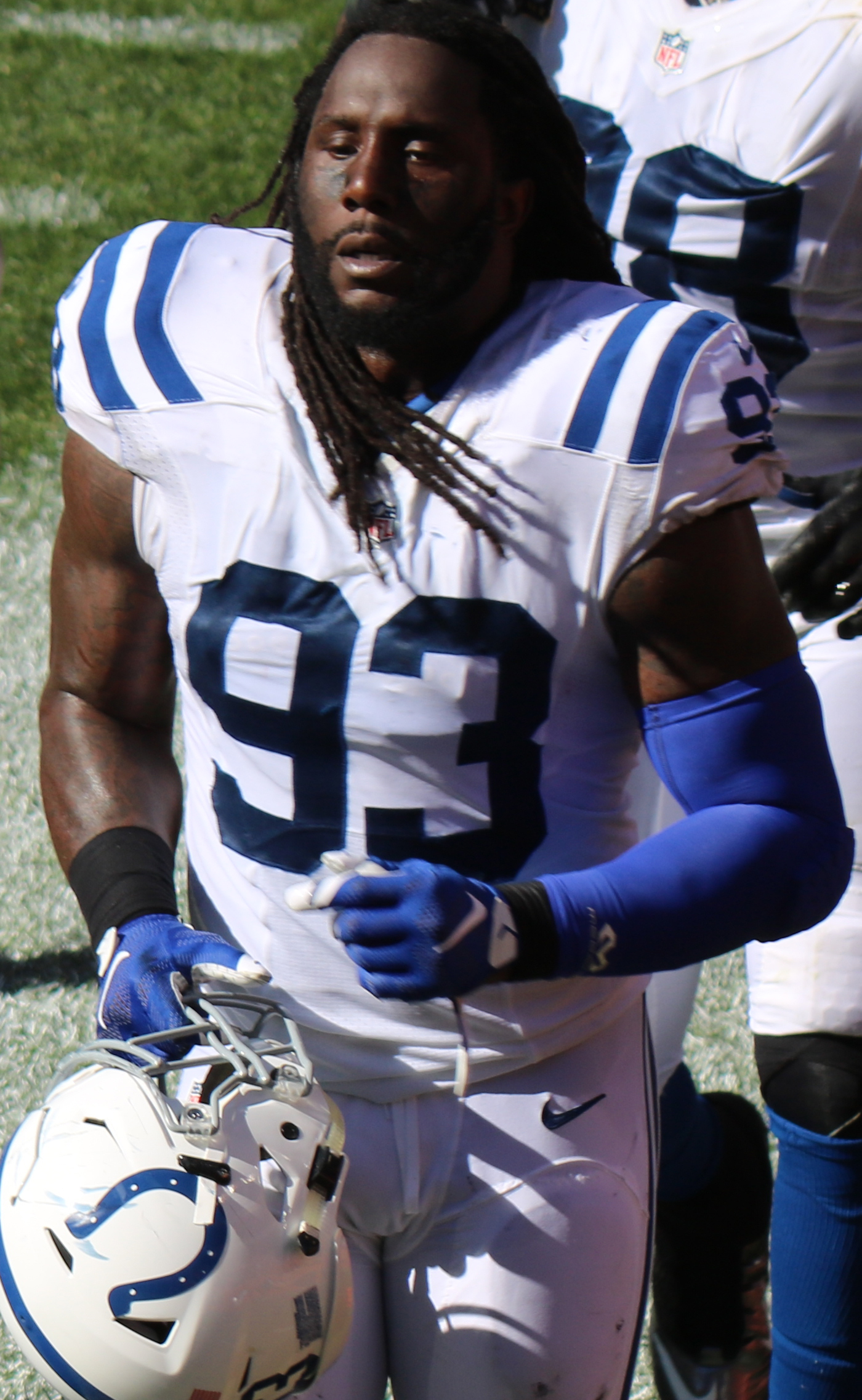 Erik Walden, a player on the National Football League.